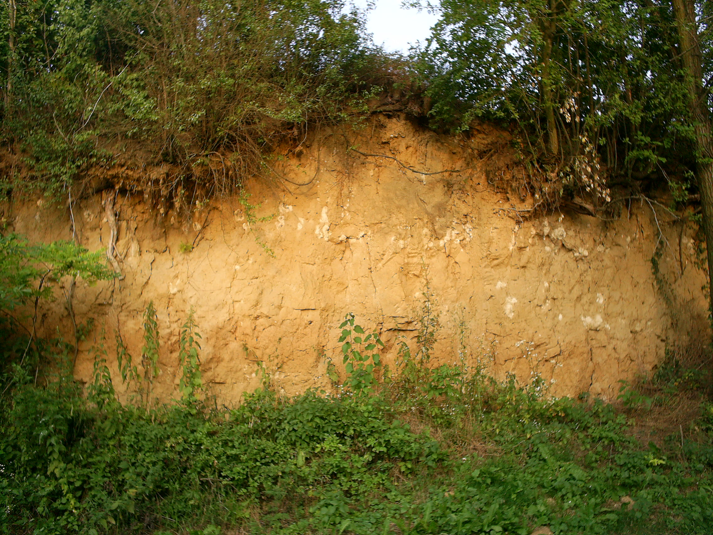 Emerging loess near Szulimán, next to the road towards Somogyhárságy/Somogyviszló, manmade formation.